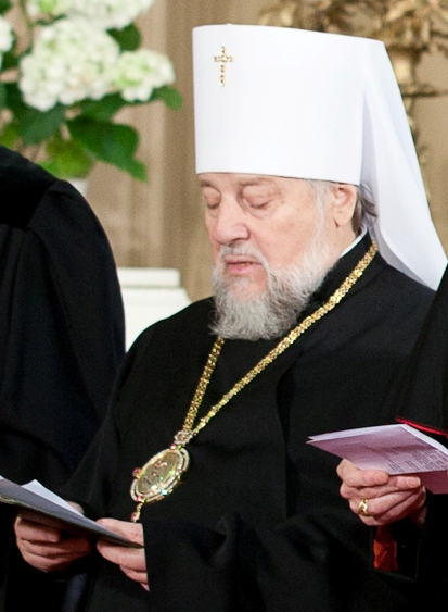 Aleksandrs Kudrjašovs, Latvian Orthodox metropolitanLatviešu: Latvijas pareizticīgās baznīcas metropolīts Aleksandrs Foto: Saeima